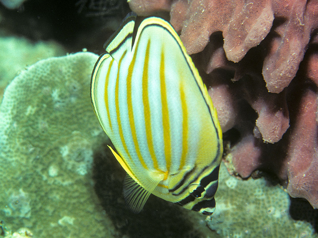 Chaetodon ornatissimus, Ornate butterflyfish, underwater photograph, Mid Reef, Pulau Sipadan, Sabah, Malaysia.